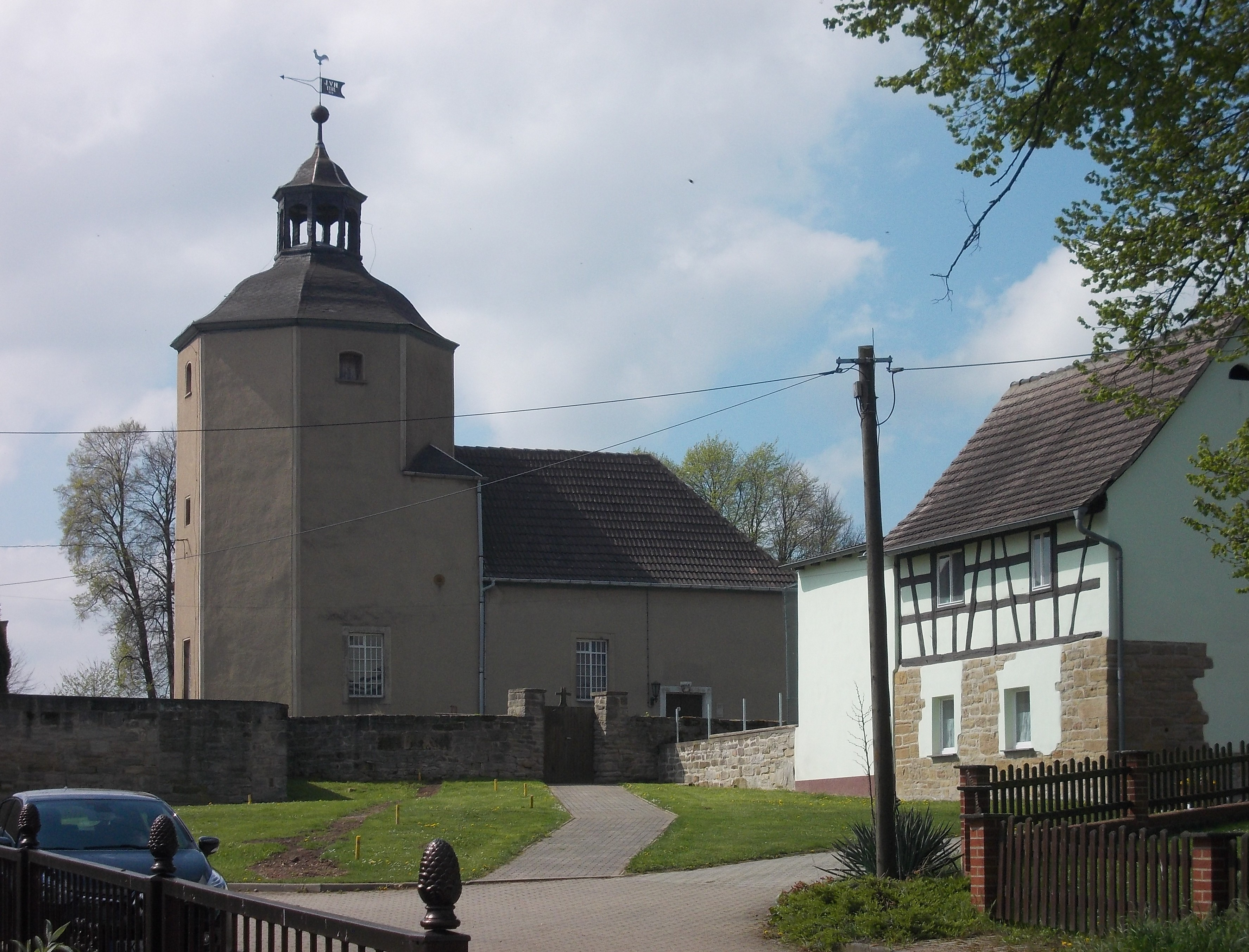 Stolzenhain church (Droyßig, district: Burgenlandkreis, Saxony-Anhalt)